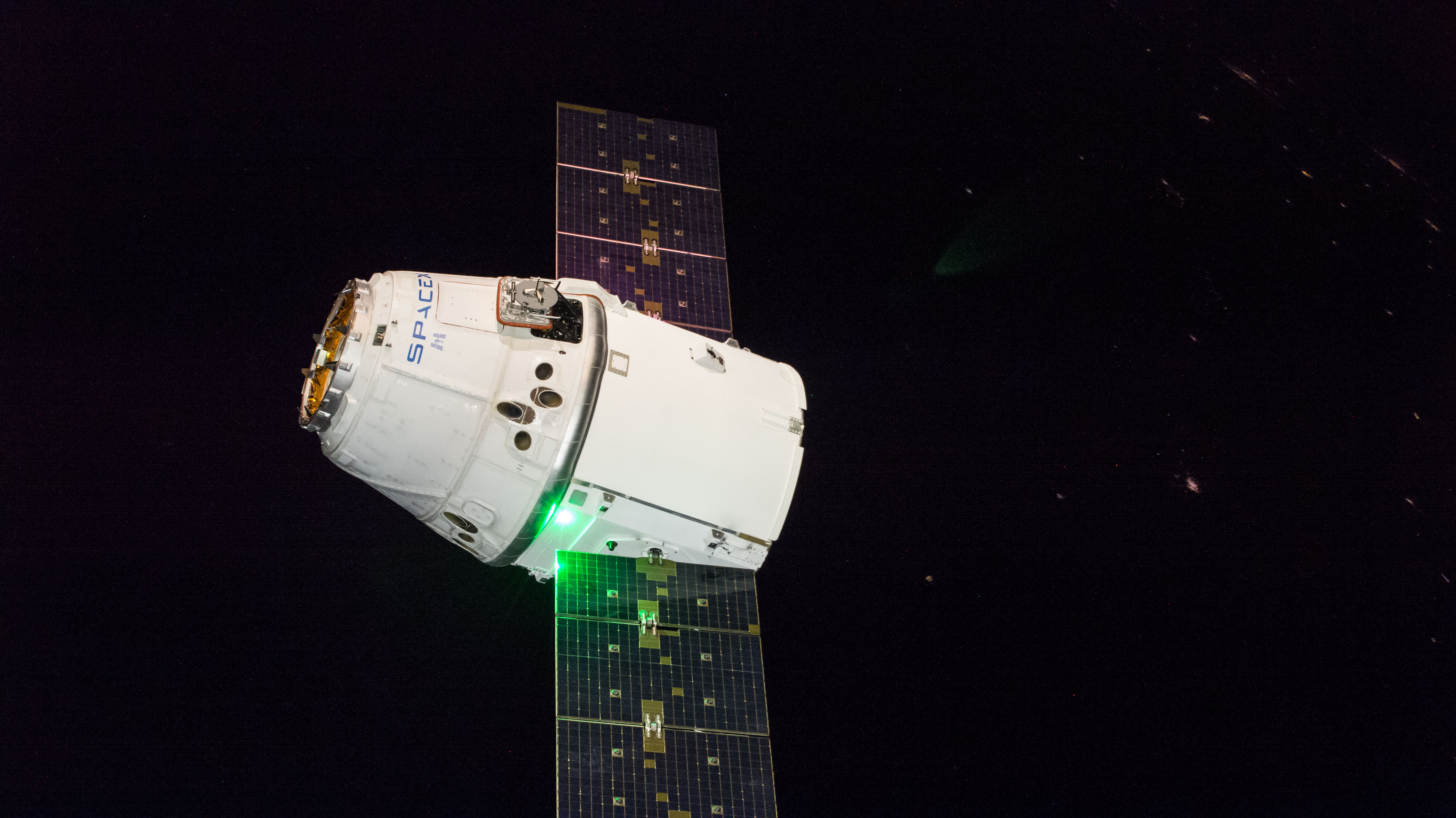 The SpaceX Dragon cargo craft slowly approaches the International Space Station. Astronauts Alexander Gerst and Serena Auñón-Chancellor were monitoring Dragon from inside the cupola and preparing to slowly reach out and grapple the cargo craft with the Canadarm2 robotic arm. Dragon, packed with over 5,600 pounds of cargo, completed a three-day trip to the International Space Station that began with a launch from Cape Canaveral Air Force Station in Florida and ended with its installation and hatch opening on the Harmony module.